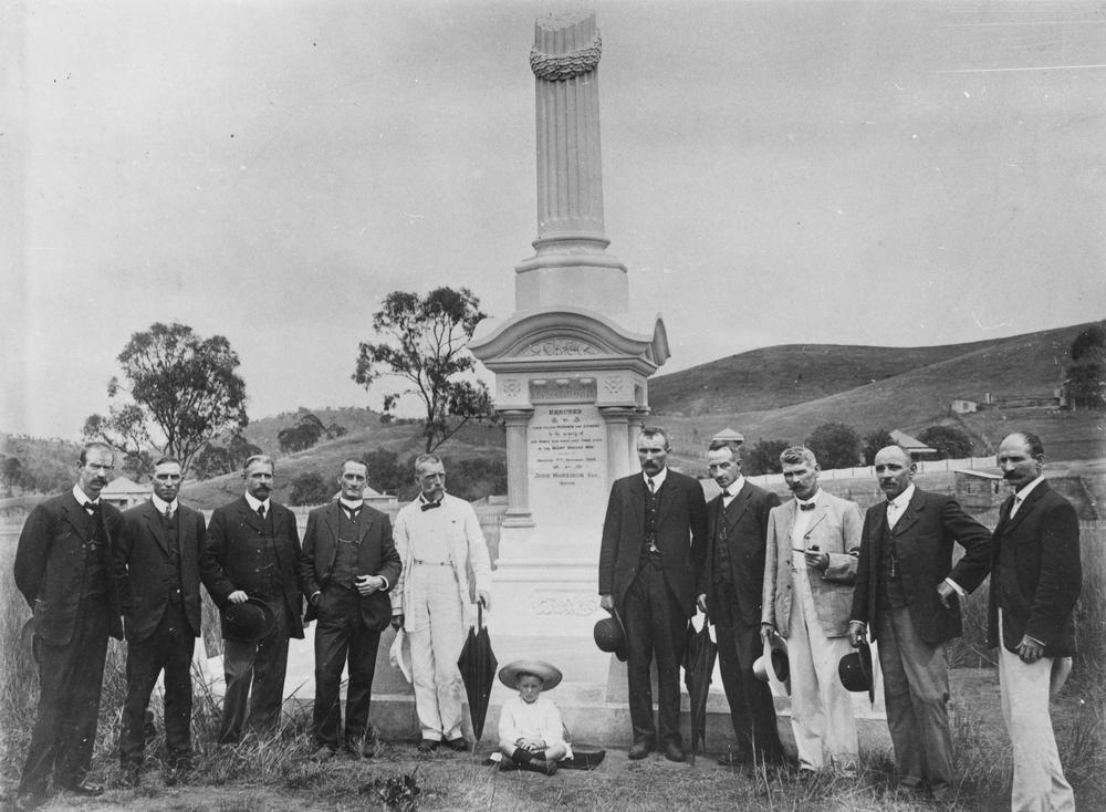 Group photograph of Linda Memorial Committee at the Monument, Mt. Morgan, 1909 The most striking monument built in memory of the twenty-six miners killed in mine accidents in Mount Morgan between December 1894 and July 1909.